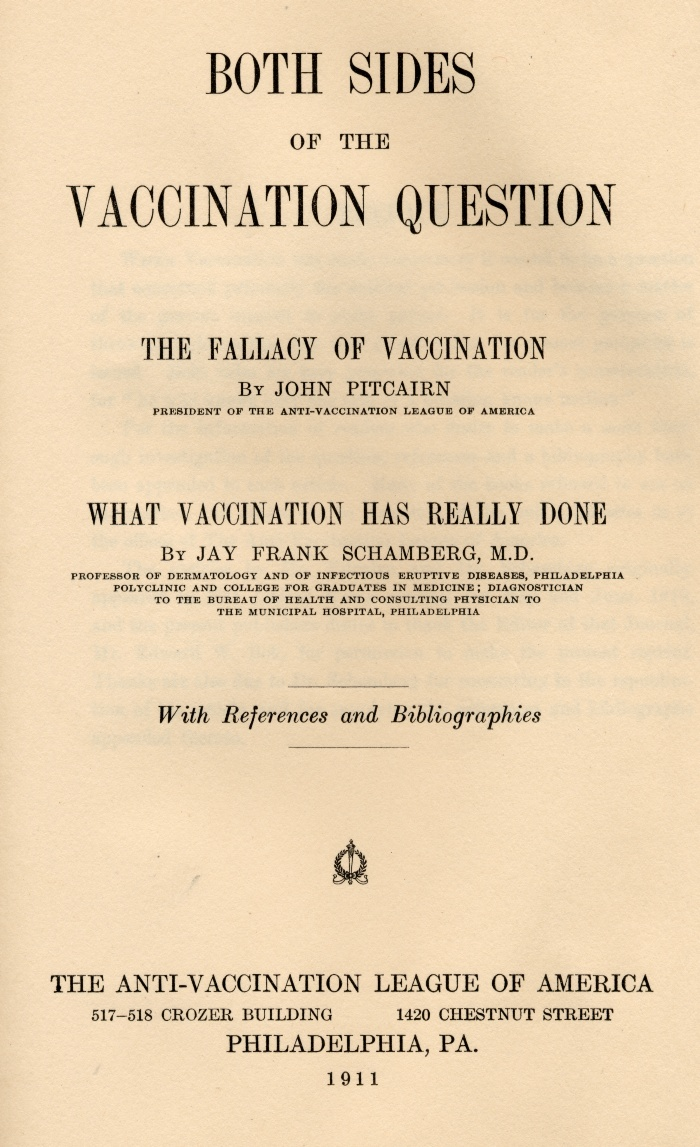 Both Sides of the Vaccination Question: "The Fallacy of Vaccination" by John Pitcairn & "What Vaccination Has Really Done" by Jay Frank Schamberg (The Anti-Vaccination League of America, Philadelphia, 1911.)